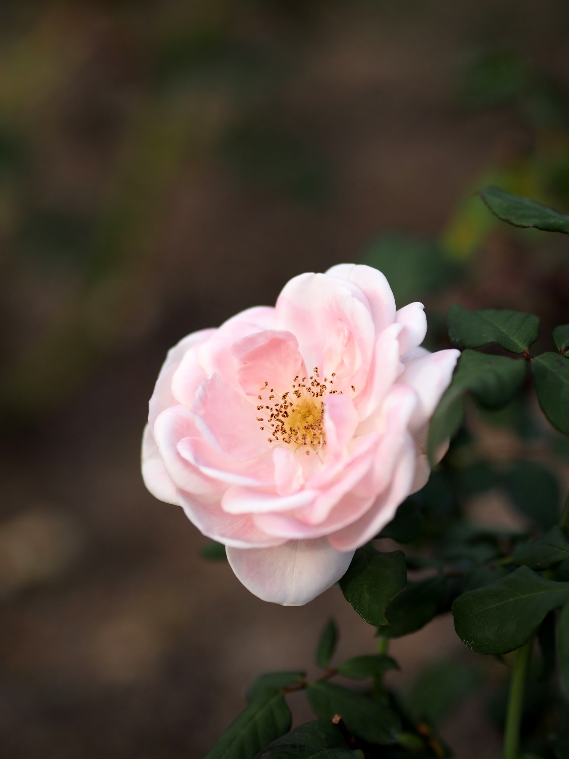 Rose, English Miss, バラ, イングリッシュ ミス, Floribunda rose フロリバンダ United Kingdom イギリス Cant 1977